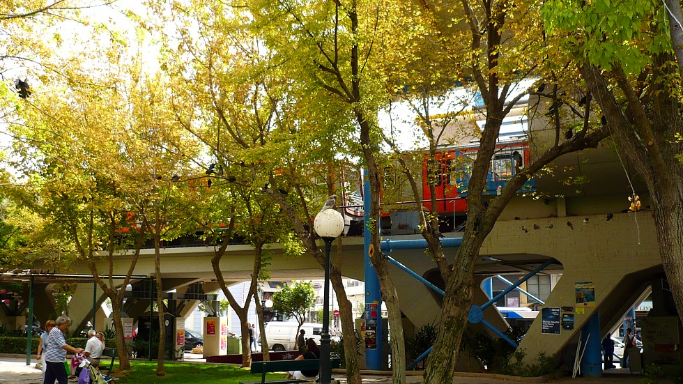 Pindou Square at Maroussi